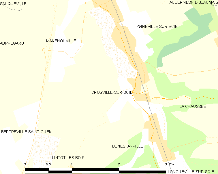 Map of French municipality Crosville-sur-Scie